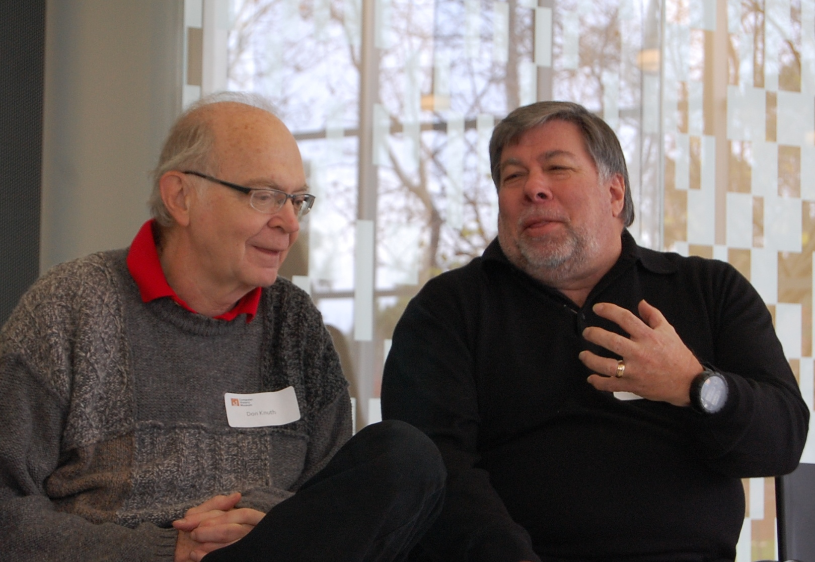 Donald Knuth (left) and Steve Wozniak (right) at the opening event of Computer History Museum's Revolution exhibition